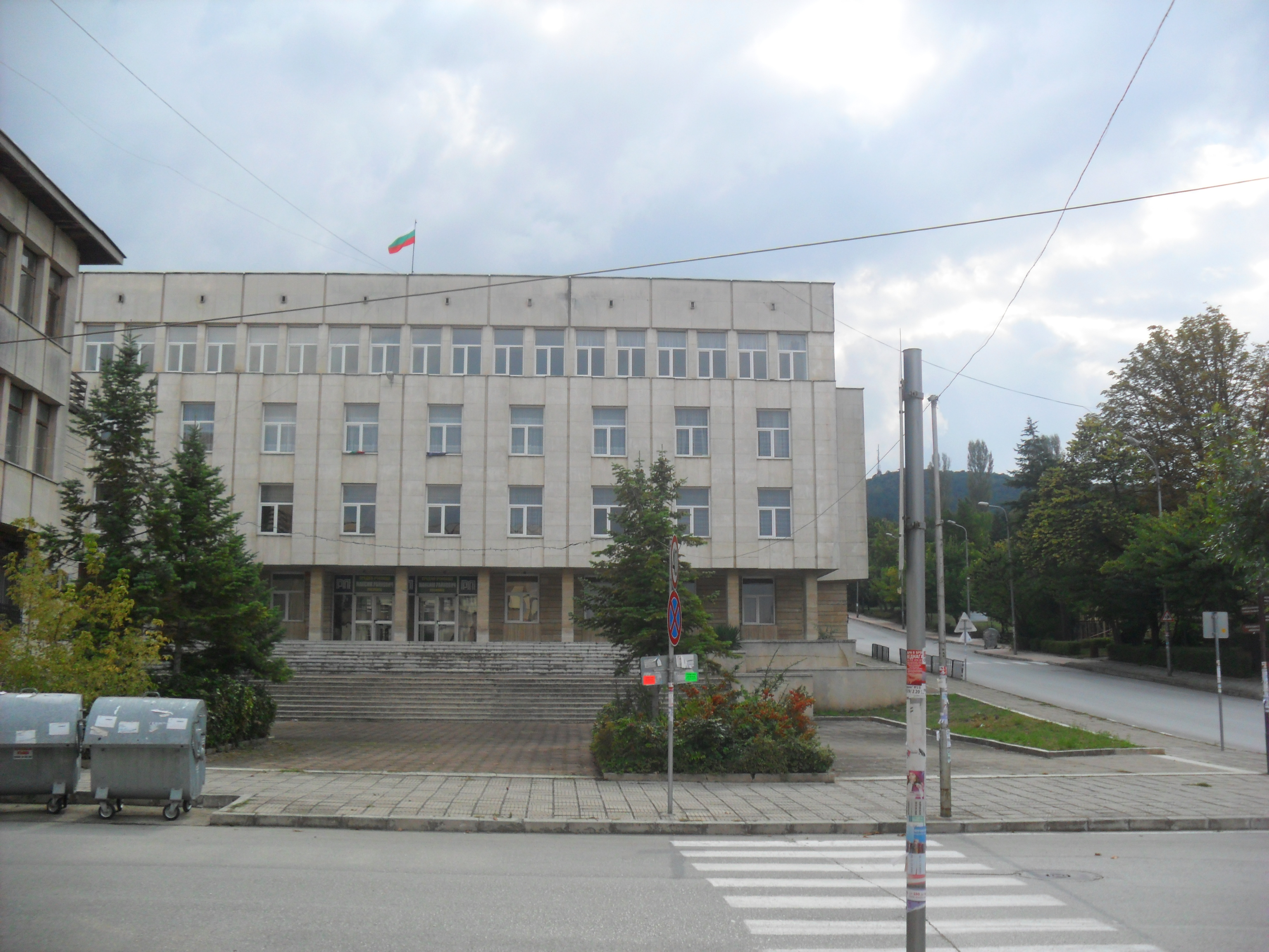 School in Lyaskovets